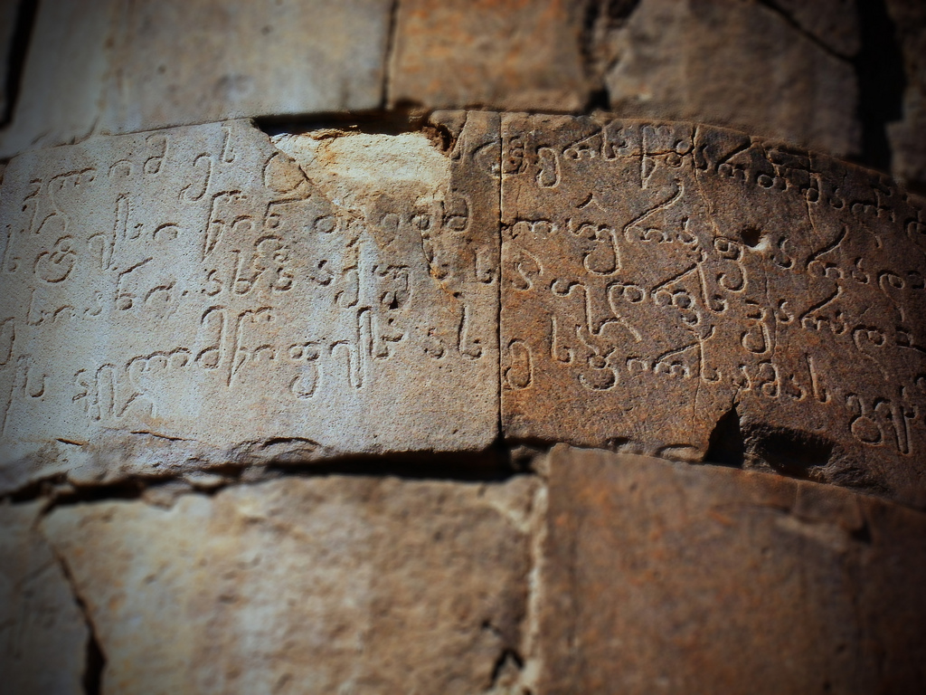 Georgian Alphabet Carved Into Stone